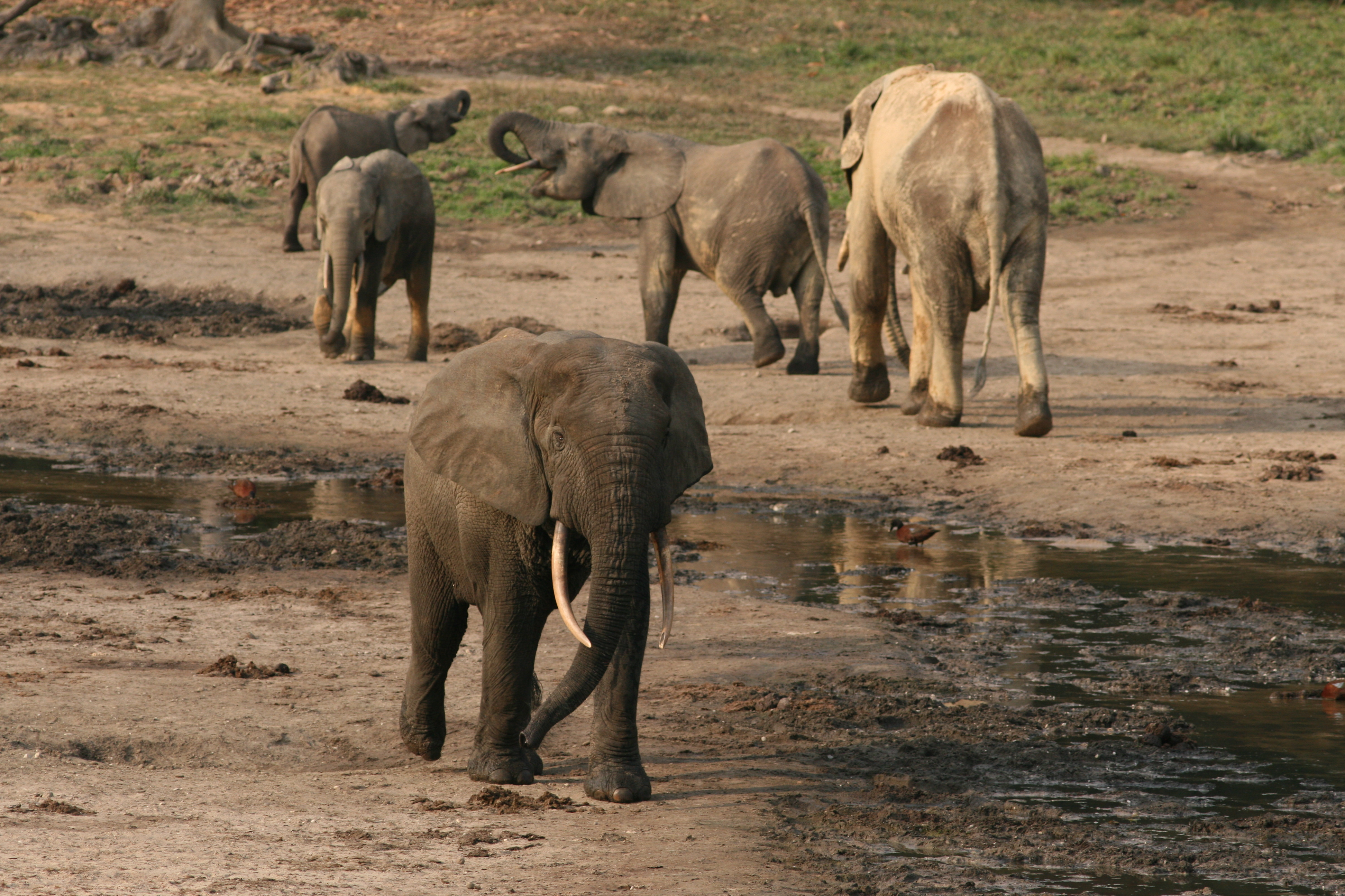 Undisturbed, elephants can live to be sixty years old. Their tusks grow throughout their life. Credit: Richard Ruggiero/USFWS